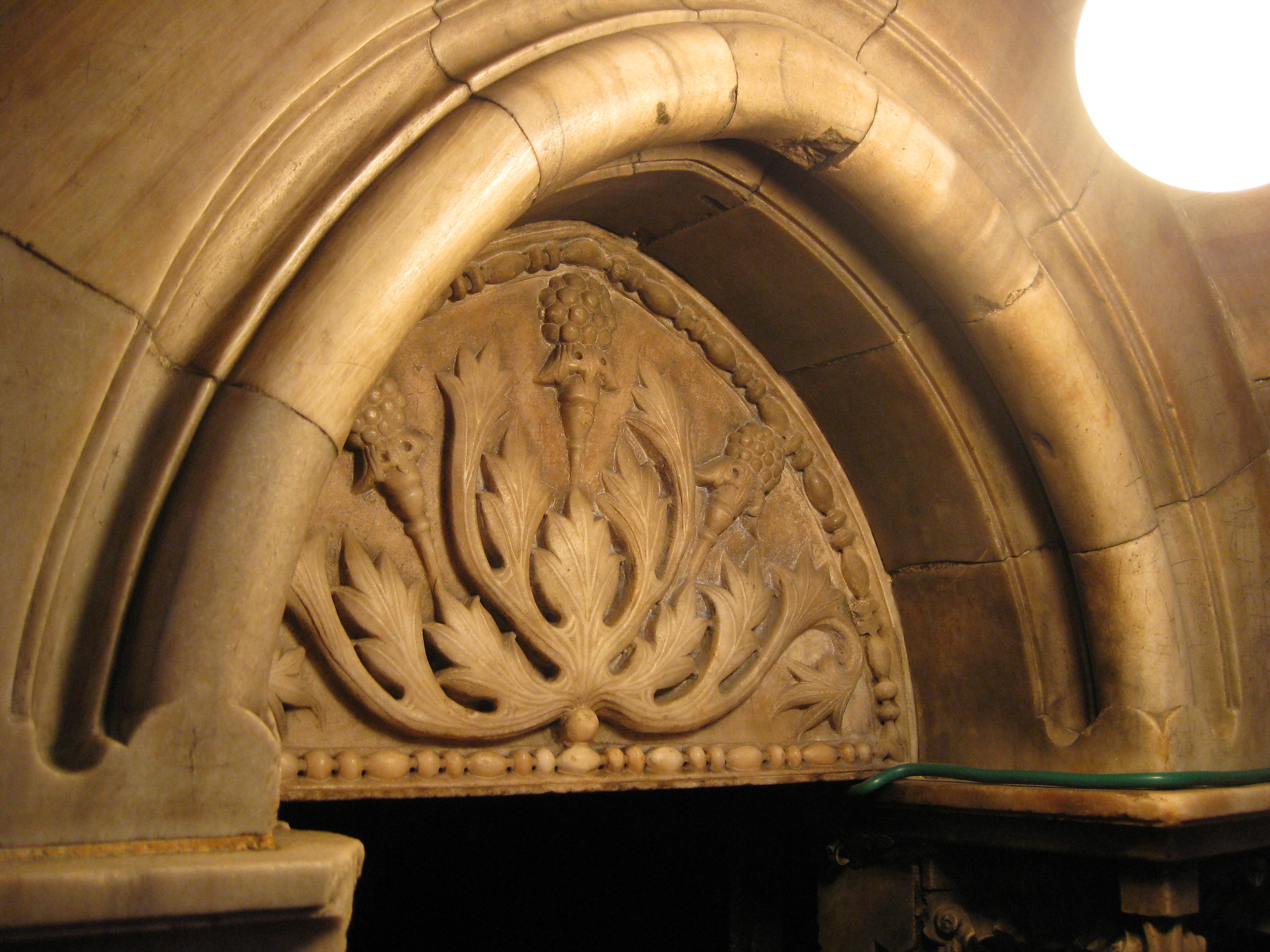 Grotto of the Nativity. South Entrance. Lunette. Bethlehem. Holy Land.